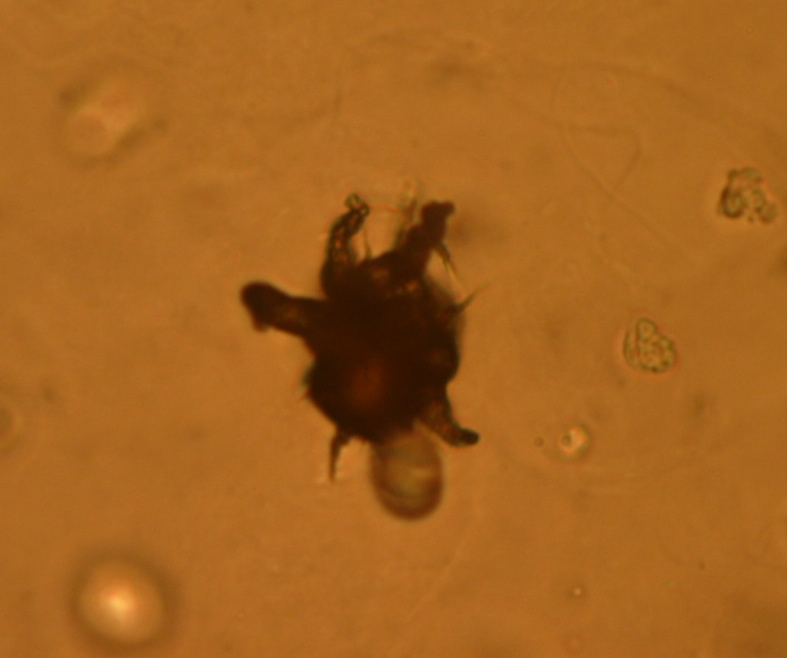 Ammonium biurate crystals in urine: yellow-brown spherical bodies with long, irregular spicules.[1]